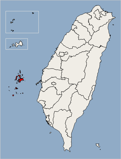 Location of Penghu County, Taiwan